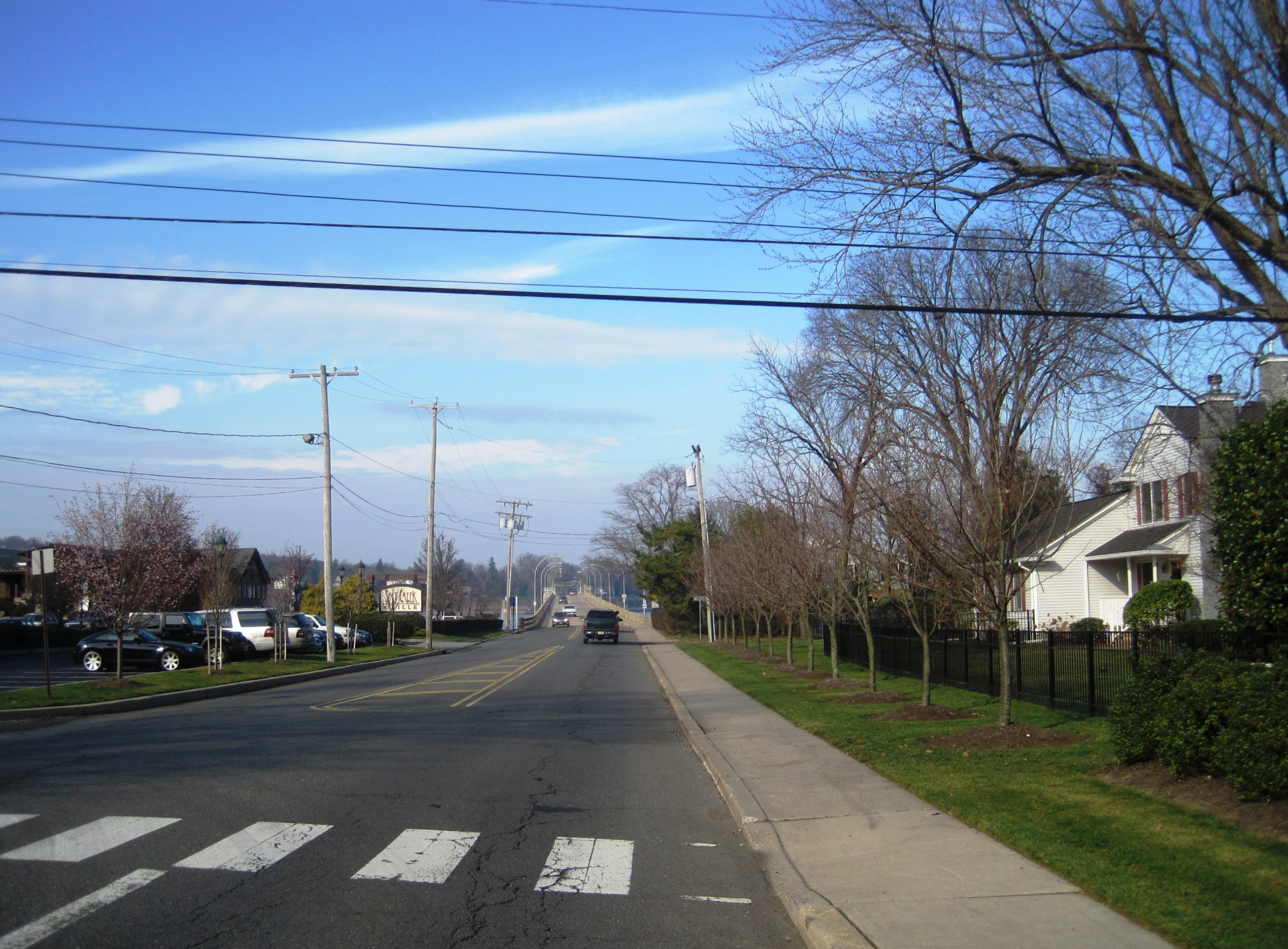 Photo showing the southern approach to the Oceanic Bridge in the settlement of Oceanic within Rumson, New Jersey. Photo taken along northbound Bingham Avenue (County Route 8A) at Hunt Street.